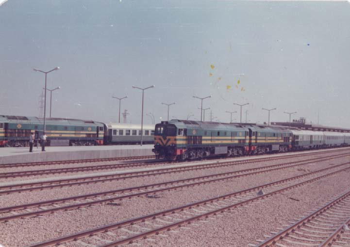 The new railway station is located approximately 4km from the center of Samawa, it is a garrish concrete construction in contrast with the first railway station that was of iron construction with fully covered platforms. The old railway station has been converted into a social club and is located in the center of Samawa. Hayder Aziz